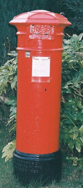 Worlds End, Hampshire: postbox № PO7 97 This early design of postbox has a flap to protect its contents from the weather.